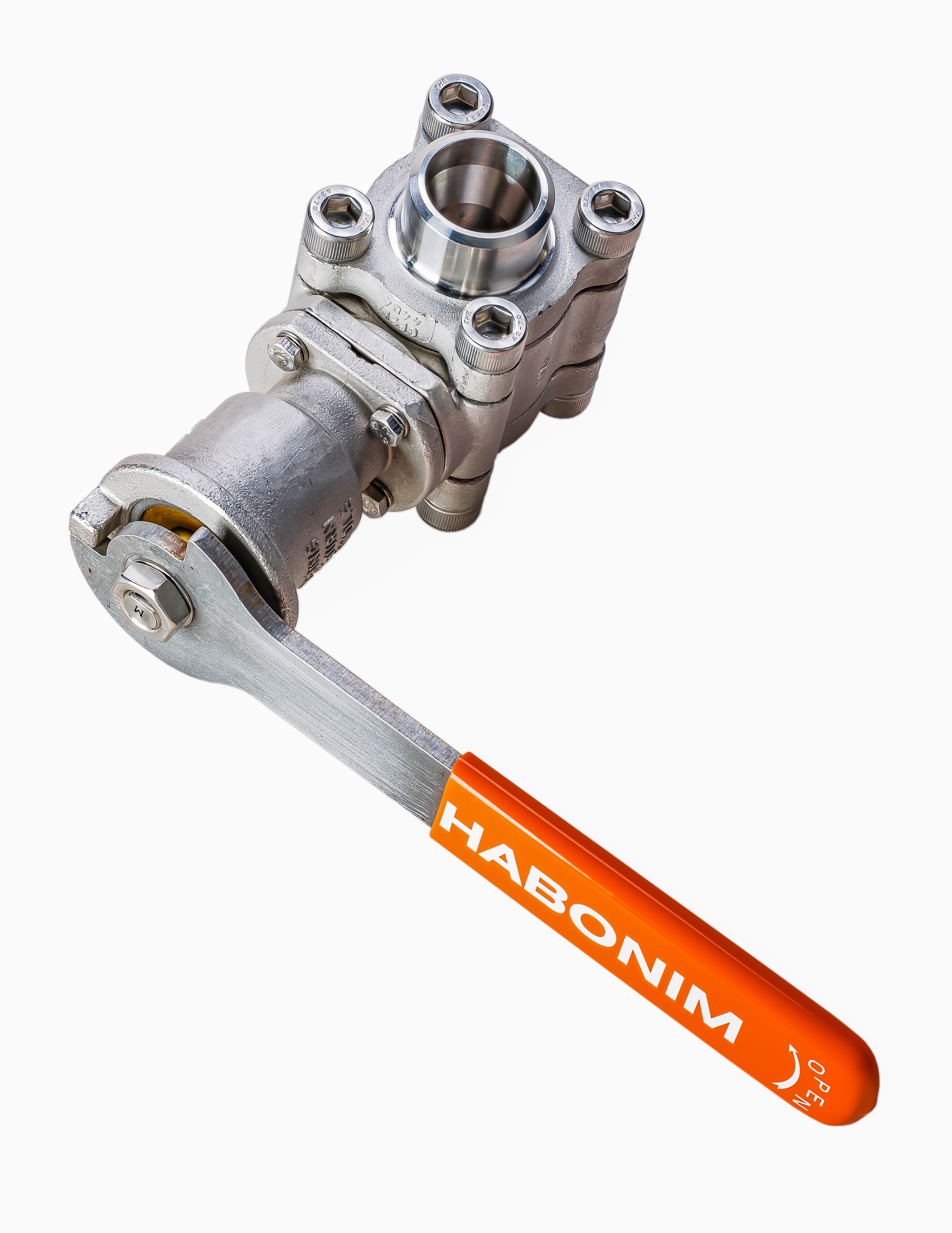 A HABONIM Spring Return Valve Handle. It is used as a dead man's device to prevent uncontrolled spill while discharging a hazardous liquid. Focus stacking of 16 pictures.